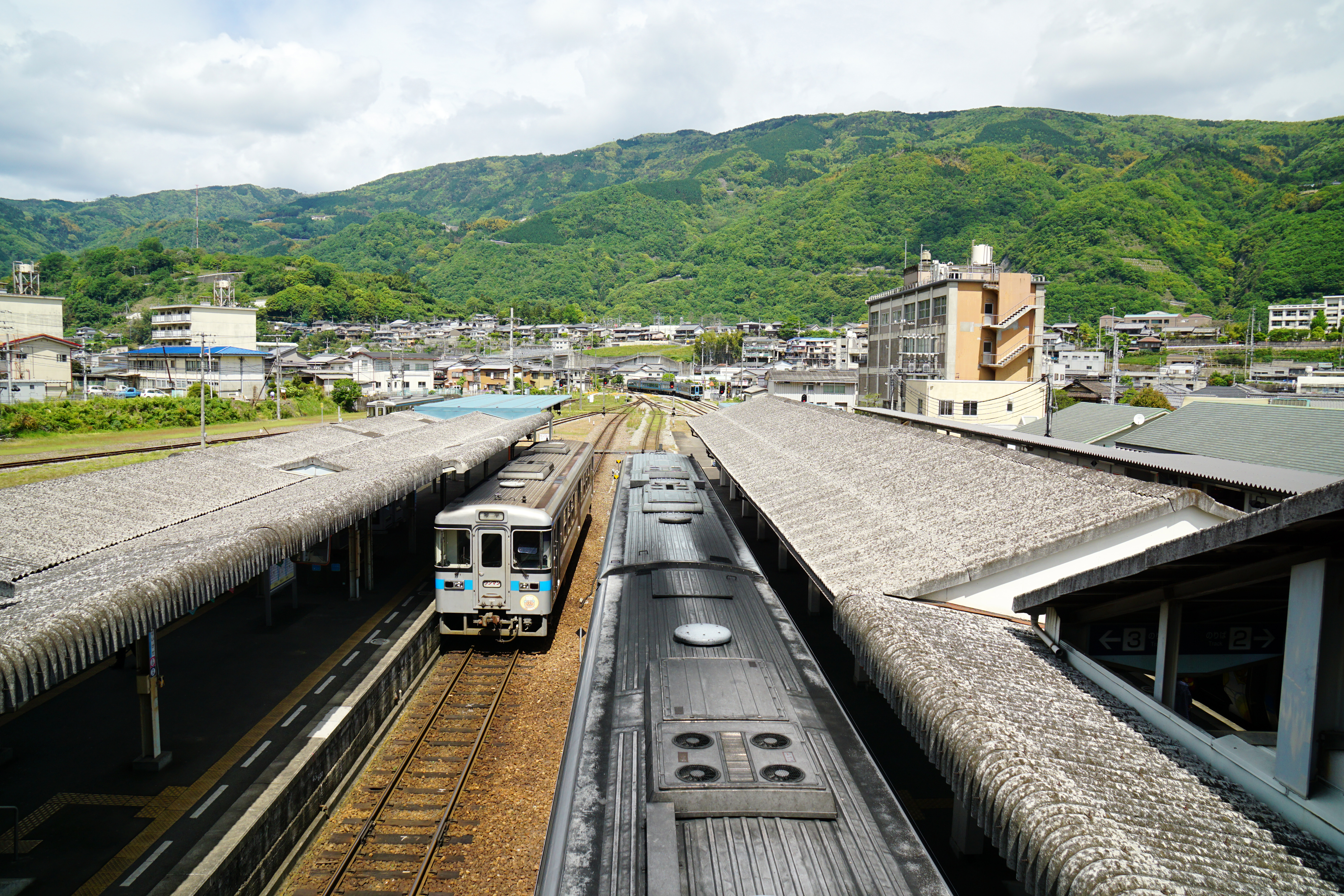 Awa-Ikeda Station in Miyoshi, Tokushima prefecture, Japan.